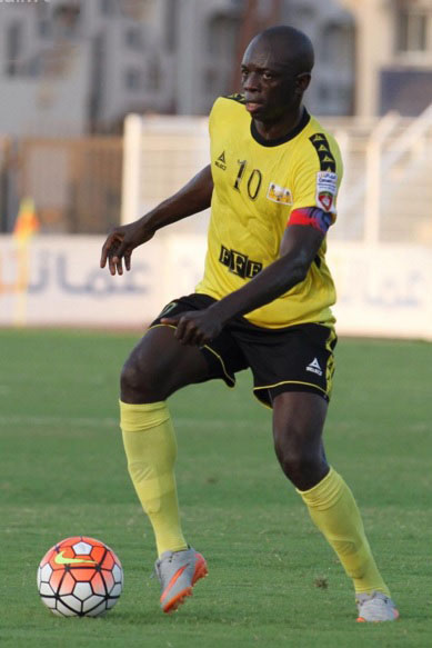 Mouhamed Ablaye Gaye in a match for Al-Suwaiq Club against Salalah Club. Sohar Sports Stadium, Sohar, Oman 28 October 2015 Photographer email id